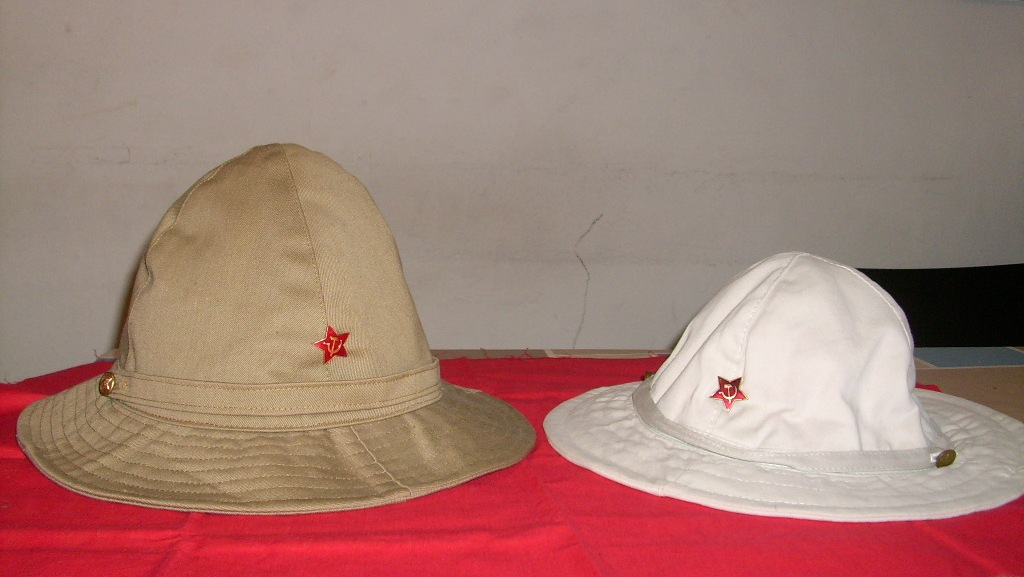 Red Army tropical hats (panamka), models from he thirties (examples from the eighties)